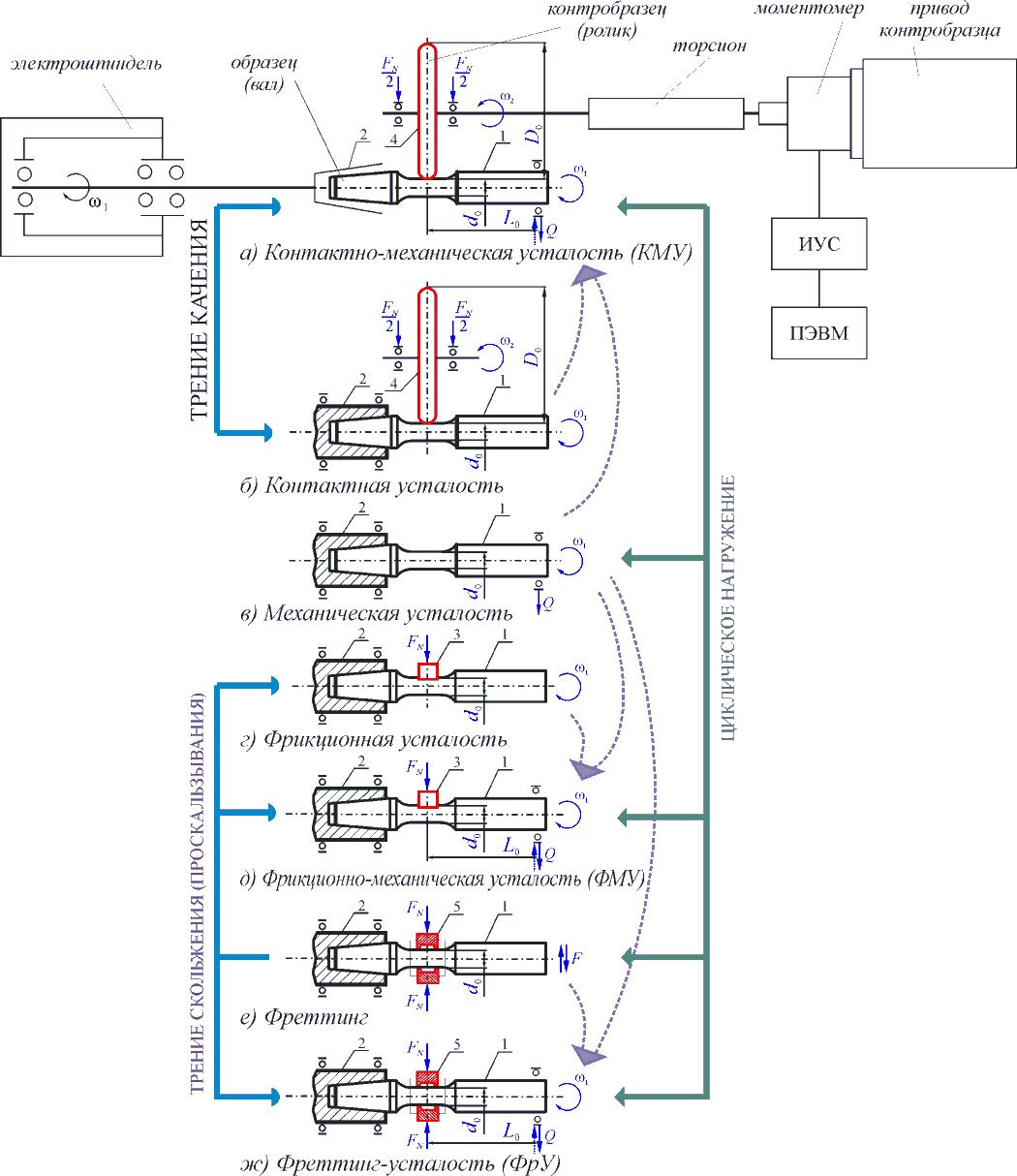 Tribo-fatigue-8